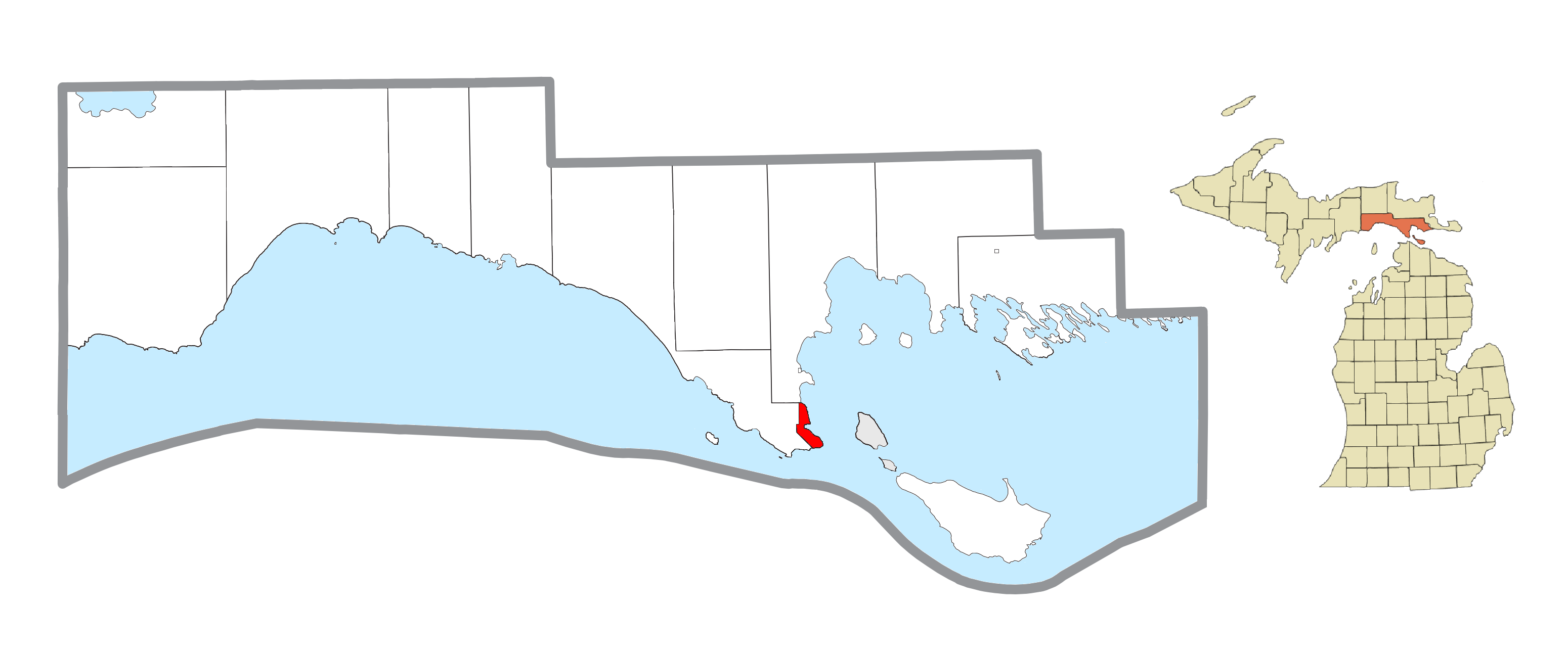 St. Ignace, MI